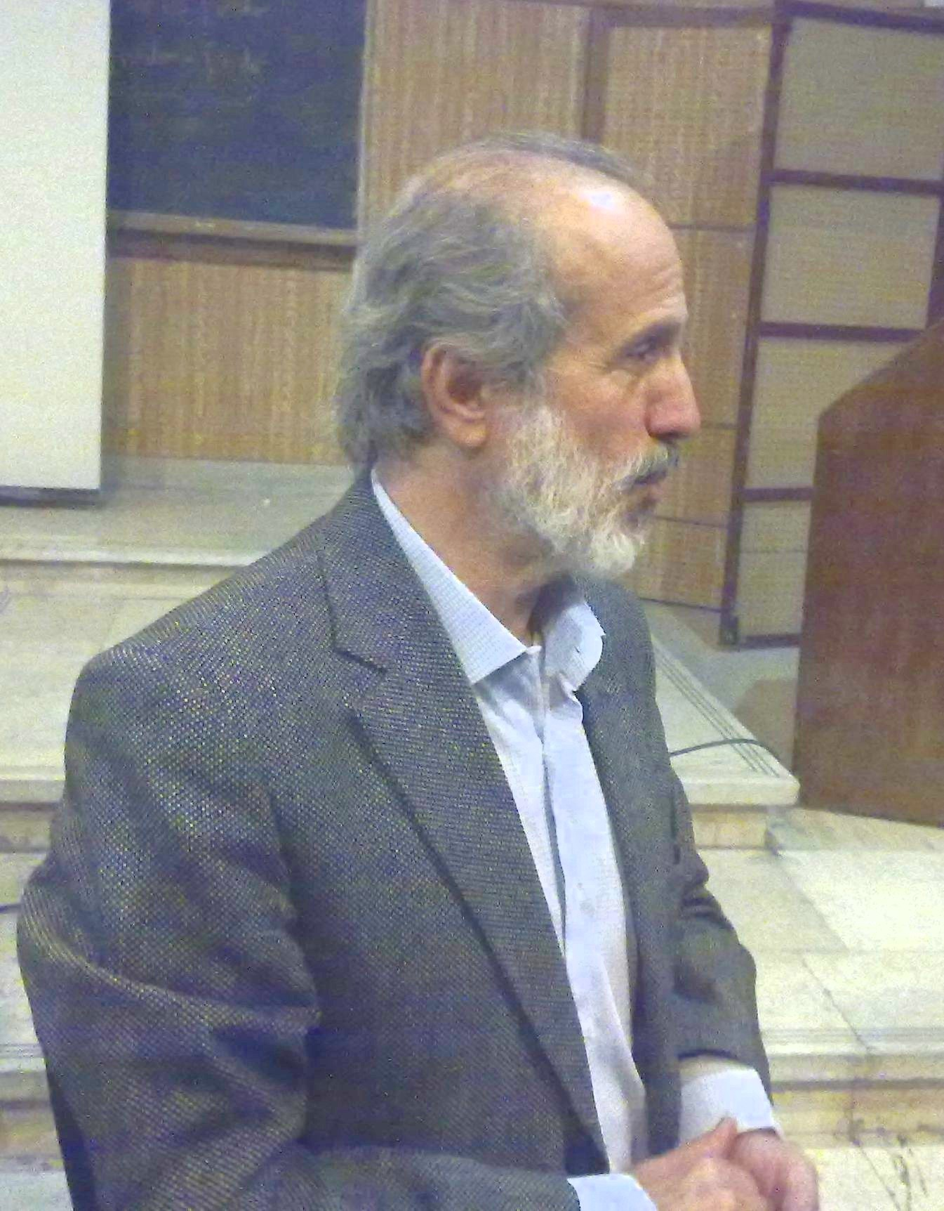 Reza Mansouri at the "Physics club" (باشگاه فیزیک) at Physics department of Tehran University